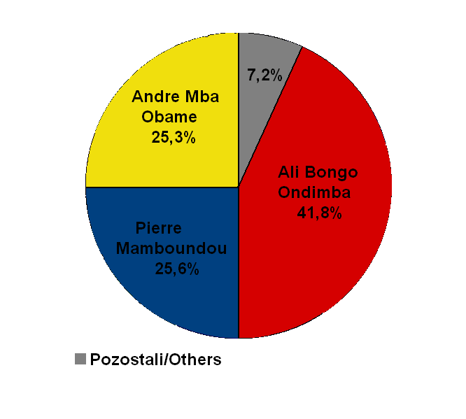 Gabon presidential election's results, 2009